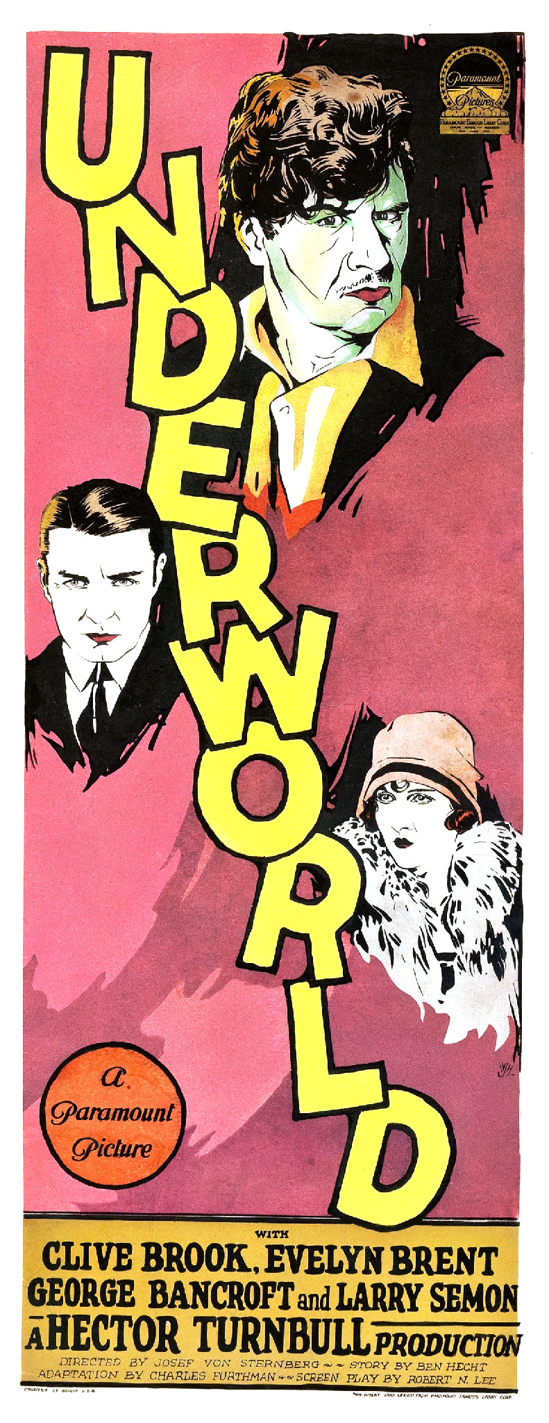 Poster for the American crime film Underworld (1927). The item has no copyright markings on it as can be seen in the links above. At bottom left is Country of origin USA; at bottom right is This insert card leased from Paramount Famous Lasky Corporation.